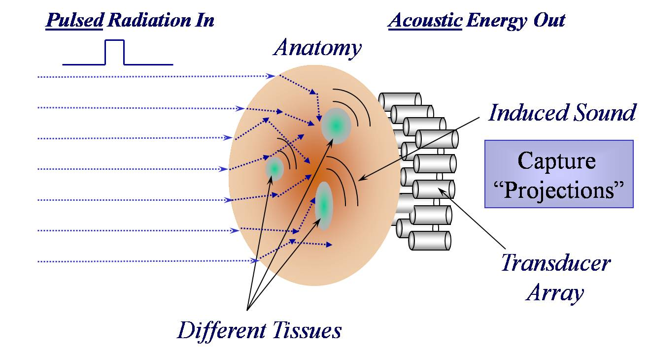 Cartoon illustrating generic instrumentation for acquiring thermoacoustic imaging data